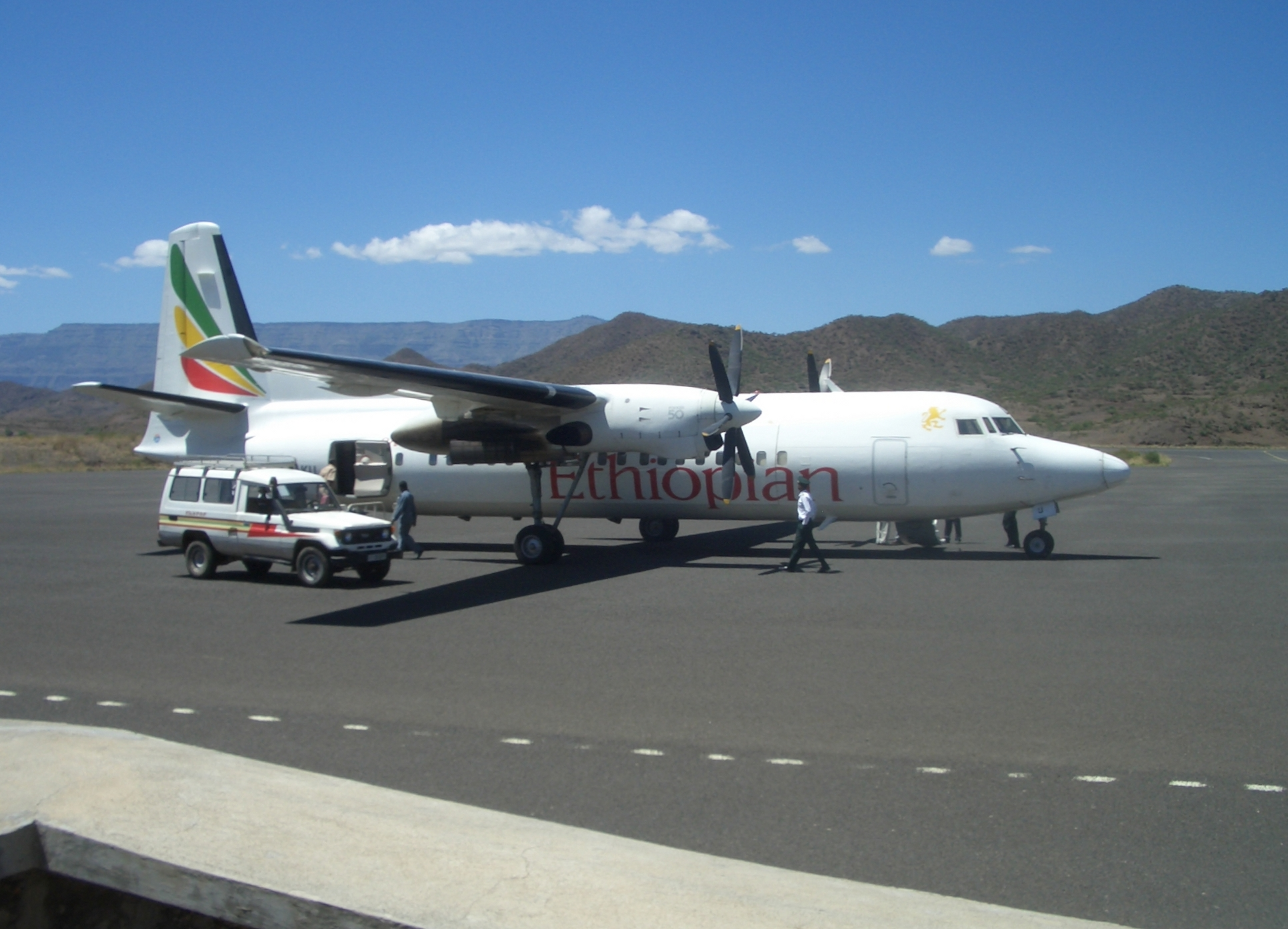 Ethiopian Airlines Plane at Lalibela Airport